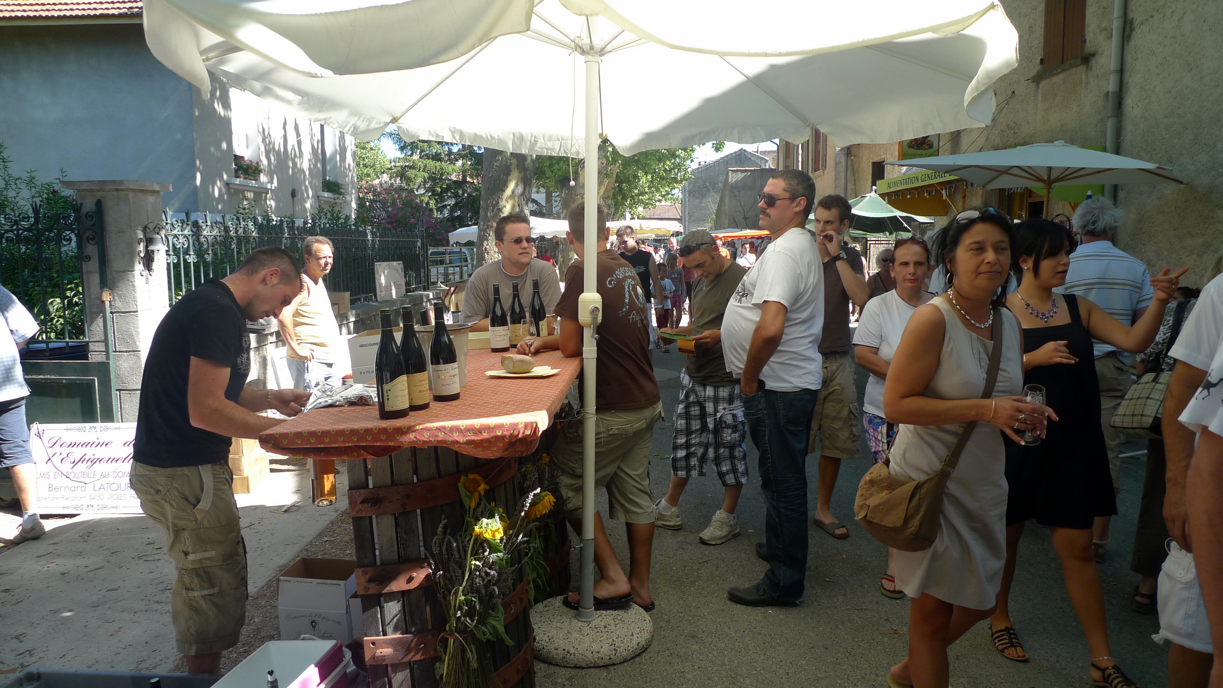 Wine degustation, Feast of wines Violès